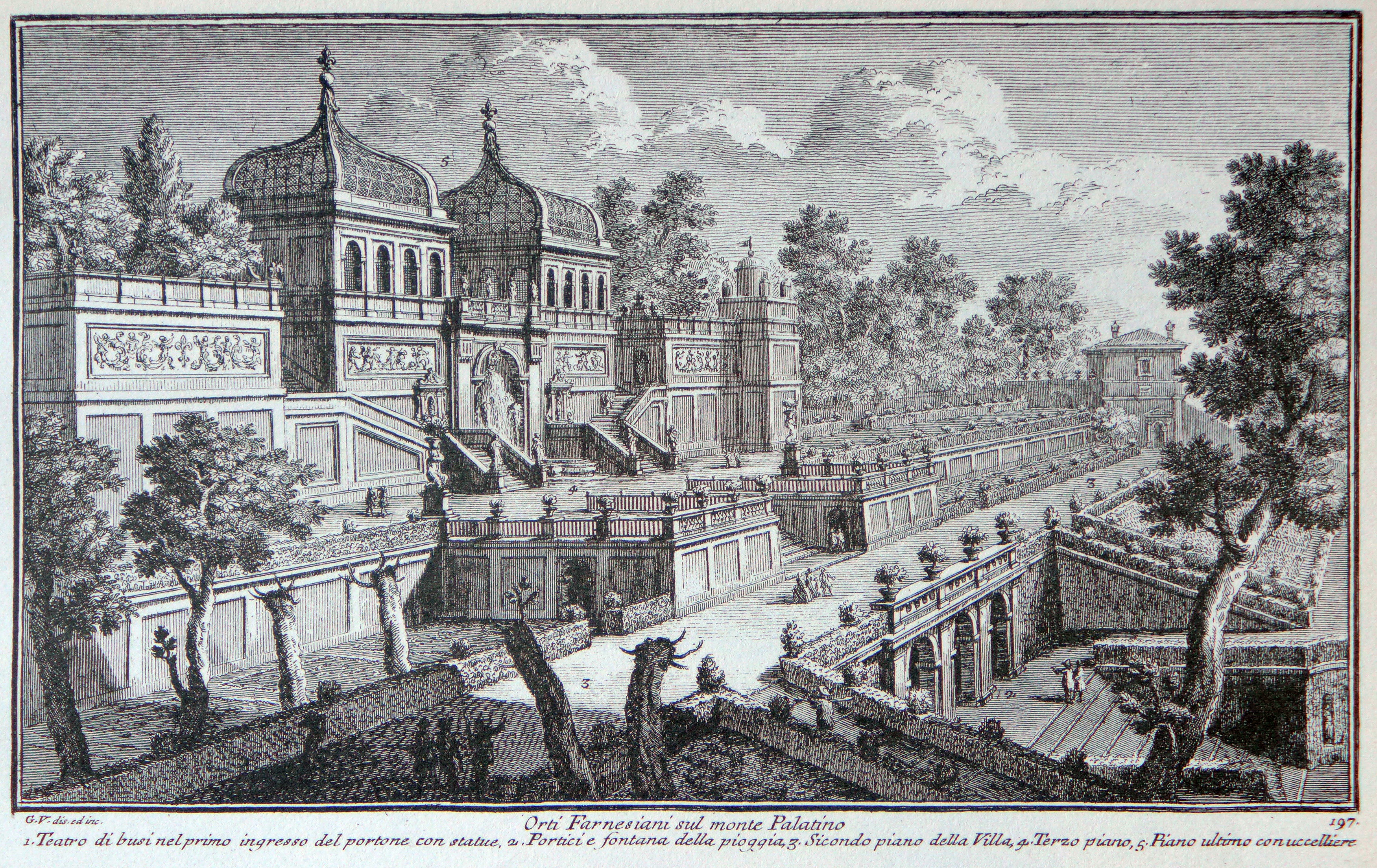 1) First entrance; 2) Porticoes and Fontana della Pioggia; 3) Second floor; 4) Third floor; 5) Aviaries on the top floor.